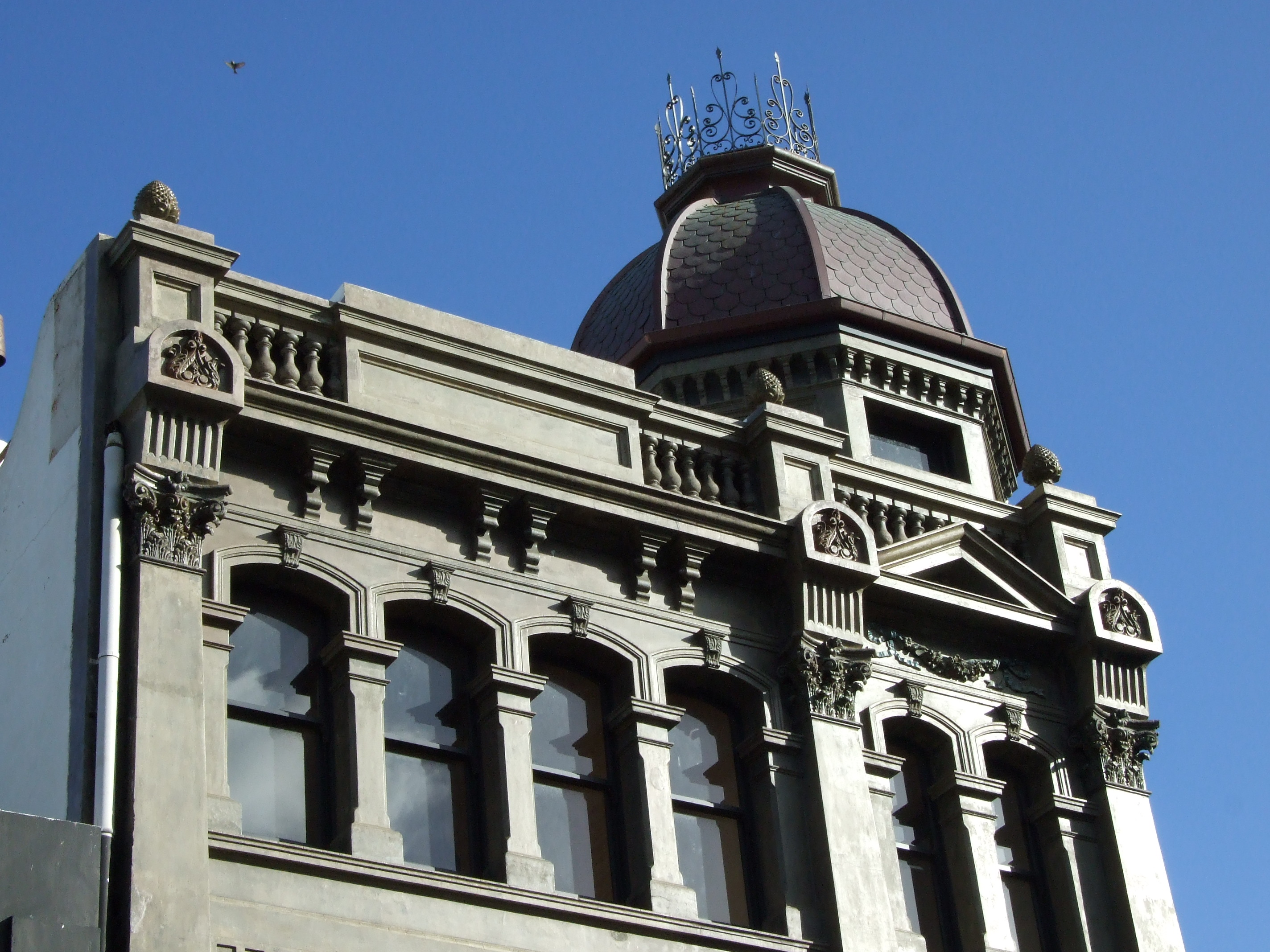 Façade of Albemarle Hotel on Ghuznee Street, Wellington. The building is registered by the New Zealand Historic Places Trust as a Category II structure, with registration number 3633.